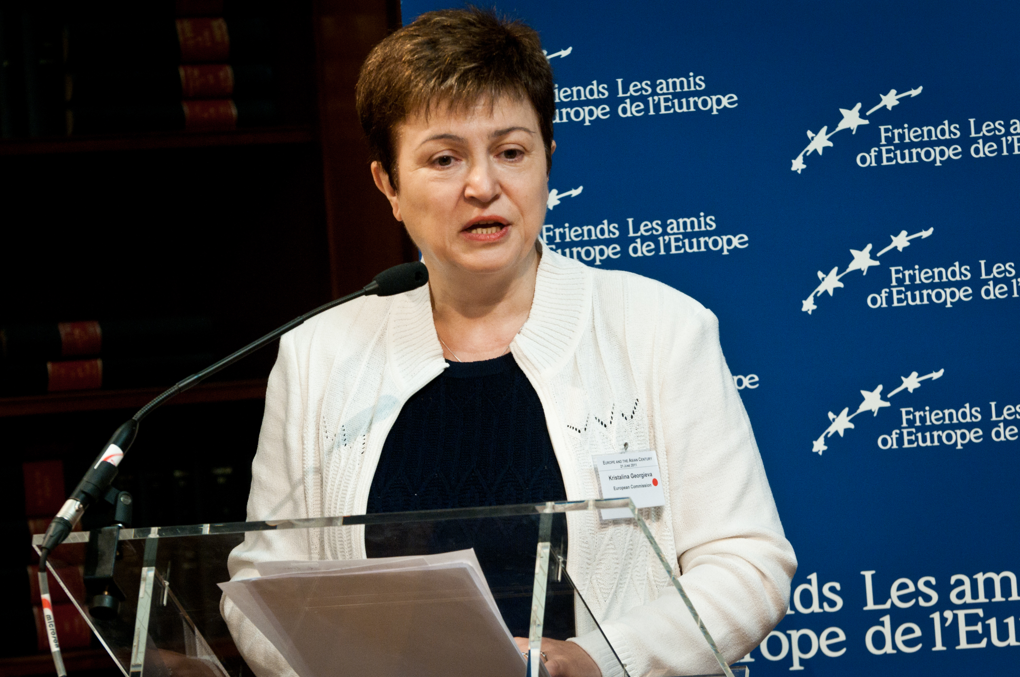 Kristalina Georgieva, European Commissioner for International Cooperation, Humanitarian Aid and Crisis Response